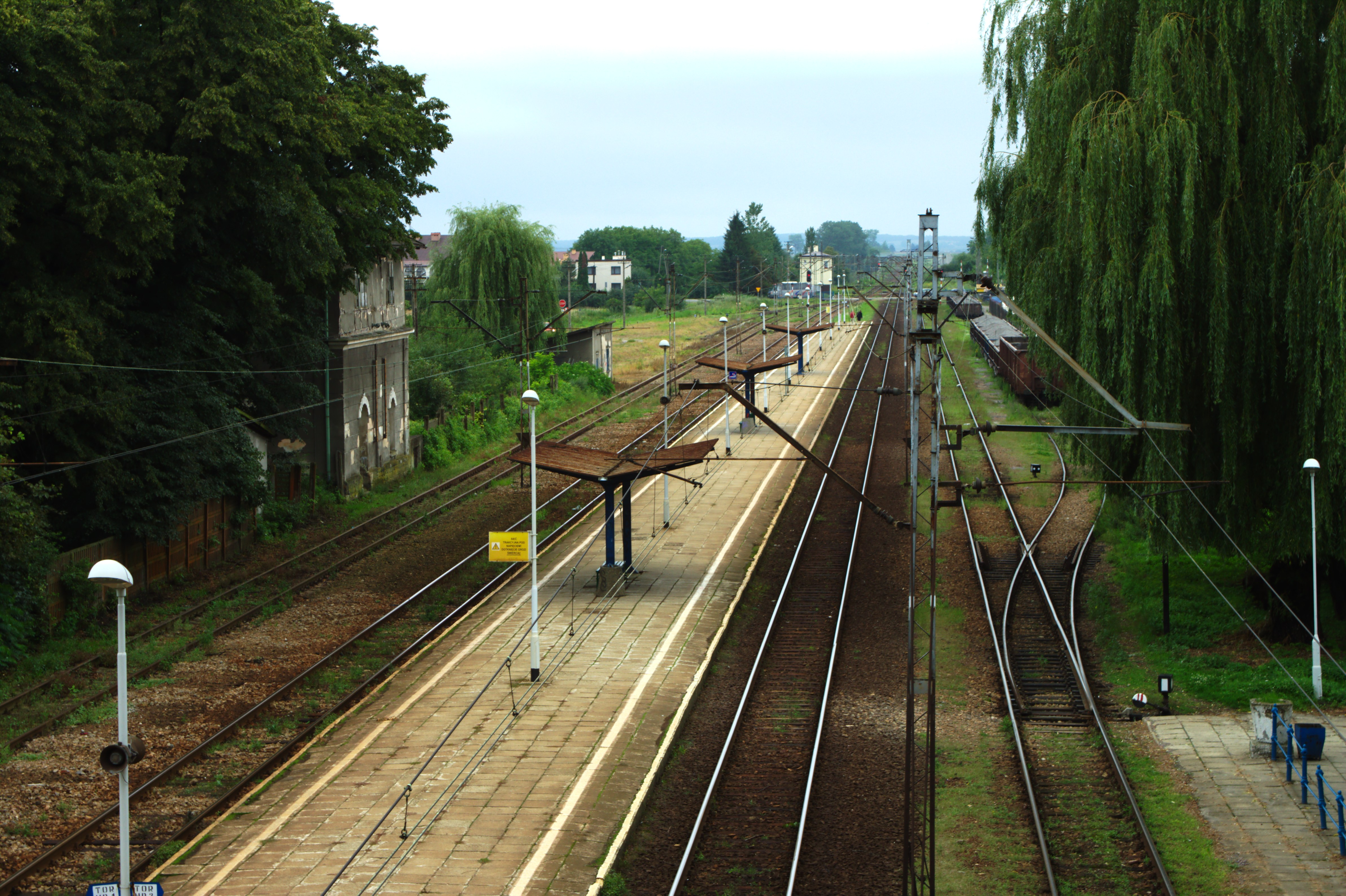 Radymno train station - a platform seen from an overpass. Podkarpackie voivodeship, Poland This photo of Subcarpathian Voivodeship was taken during Wikiekspedycja 2011 set up by Wikimedia Polska Association.You can see all photographs in category Wikiekspedycja 2011. The making of this document was supported by Wikimedia Polska.